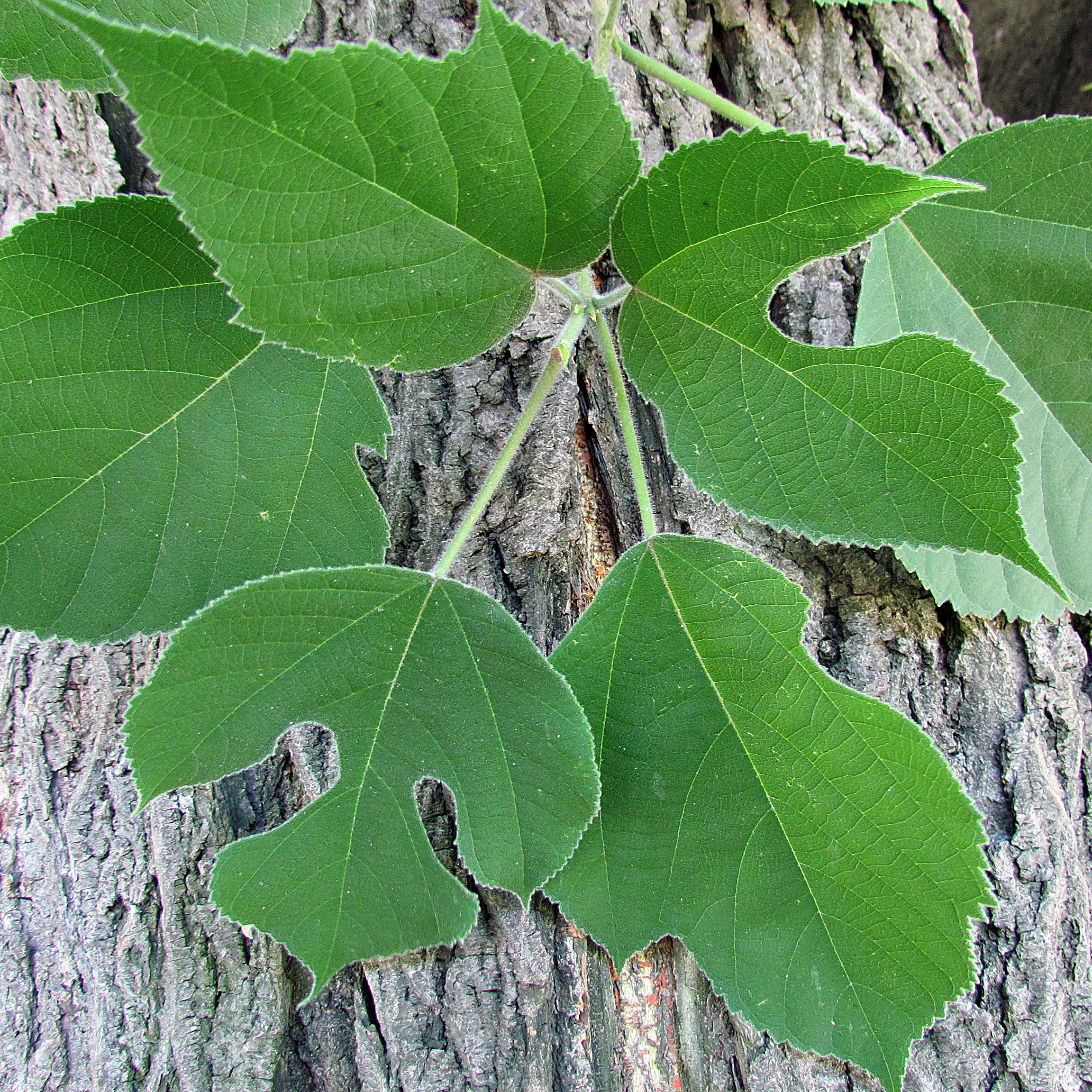 Broussonetia leaves